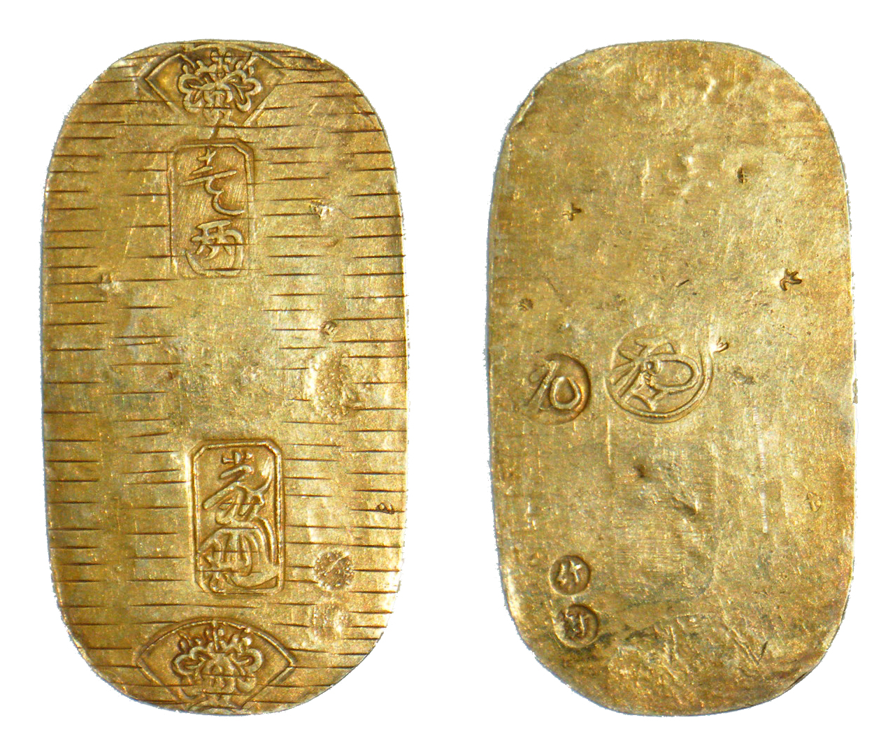 Genroku-koban